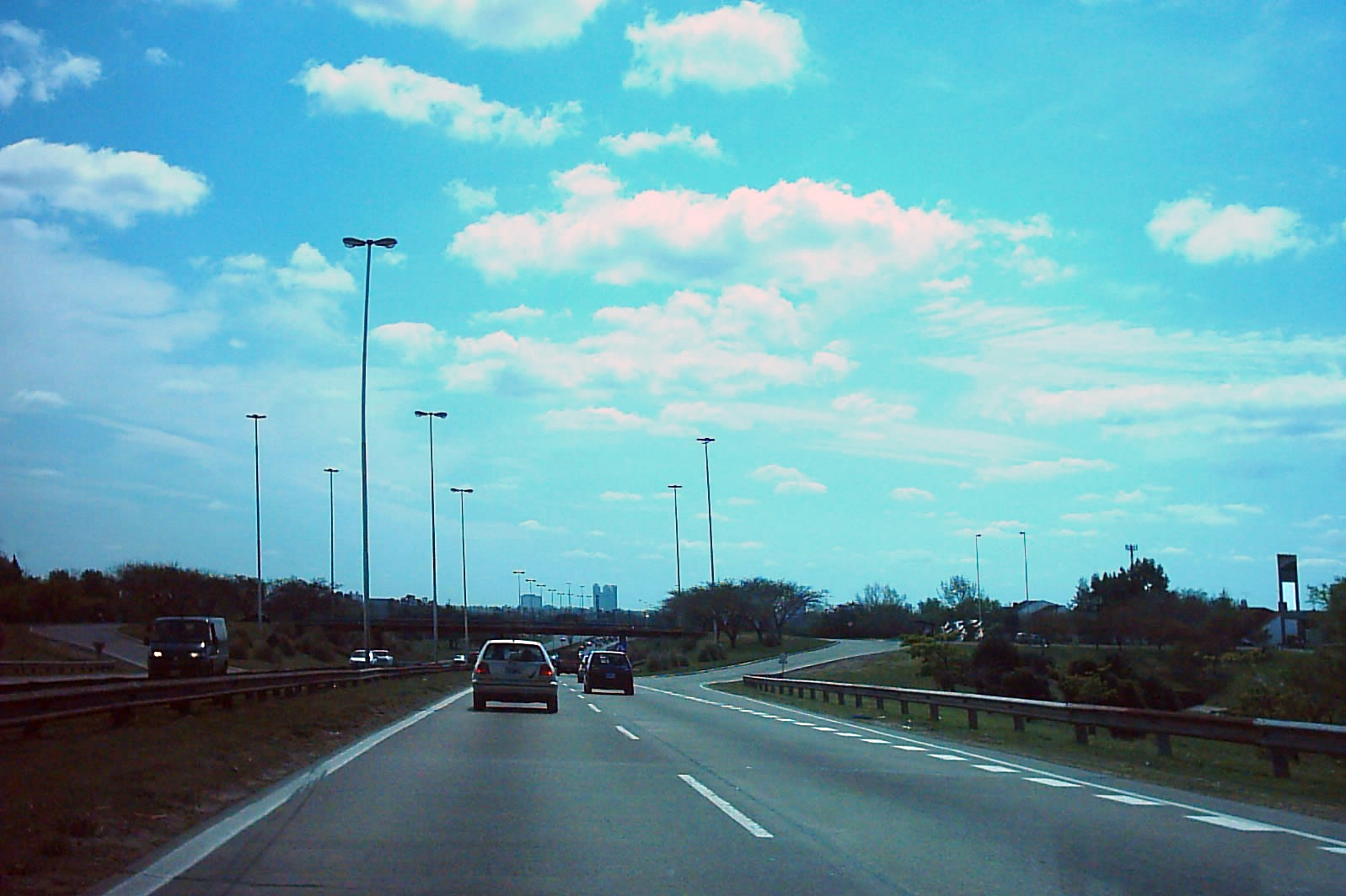 Ruta Nacional A003 (acceso a Tigre) taken from Lomas de San Isidro. I took this picture on October 1st, 2006.